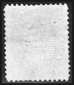 Stamp US 1868 1c Z grill from Miller collection (backside)